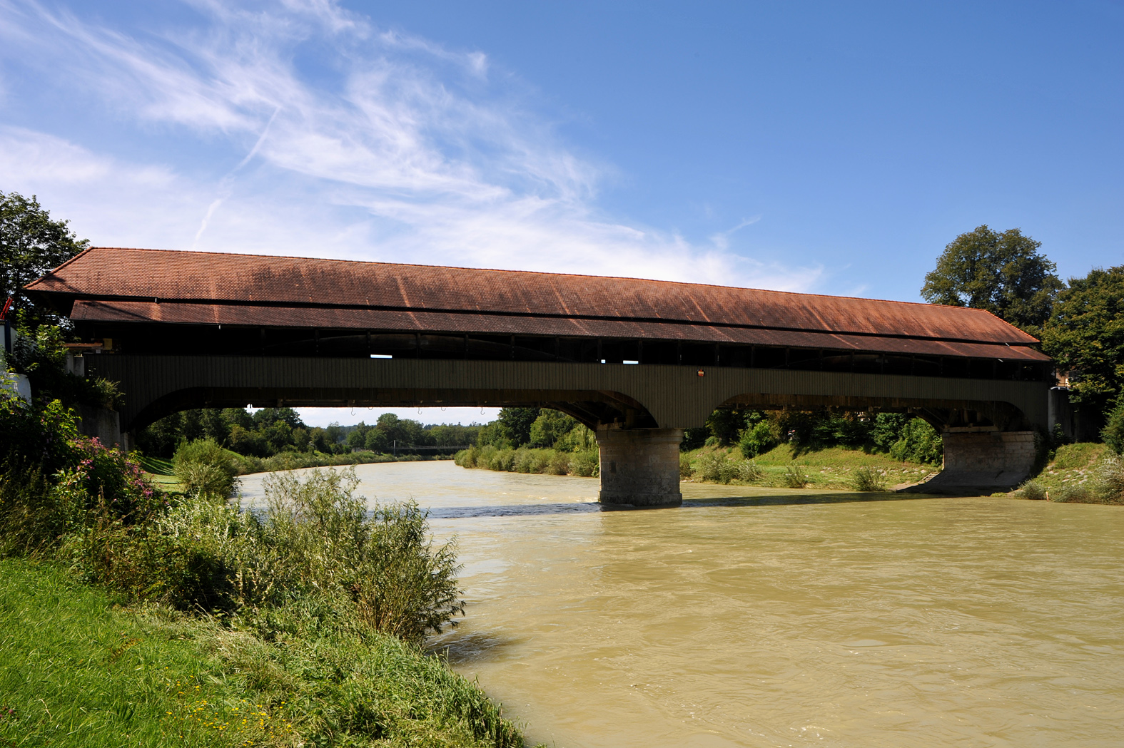 Covered wooden bridge over the Thur in Andelfingen; Zurich, Switzerland.